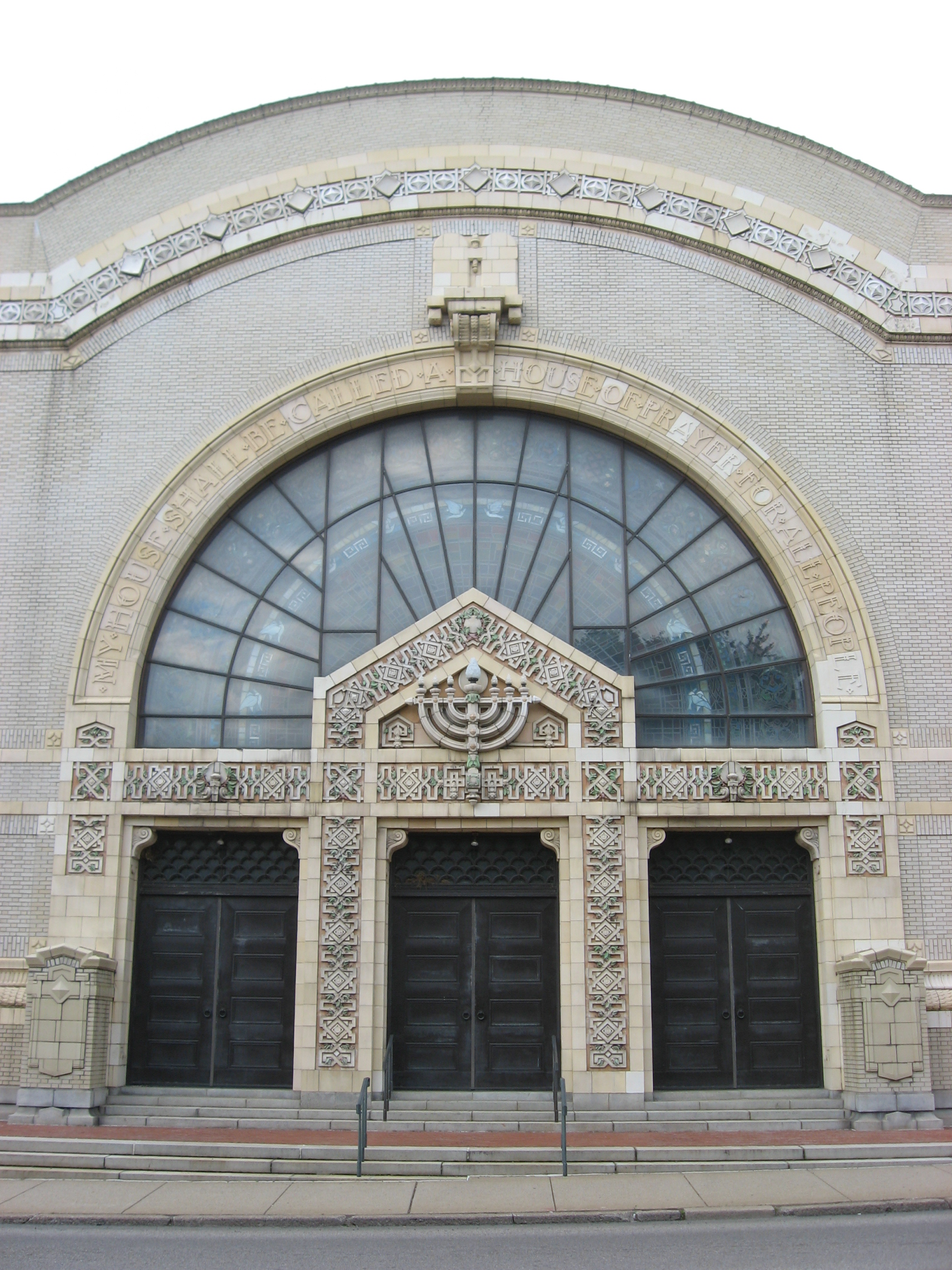 Façade of Temple Rodef Shalom, a Reform synagogue in Pittsburgh, Pennsylvania, United States that is listed on the National Register of Historic Places. Building faces Fifth Avenue; picture is taken from the sidewalk on the other (south) side of the street. Address 4905 5th Ave., Shadyside.